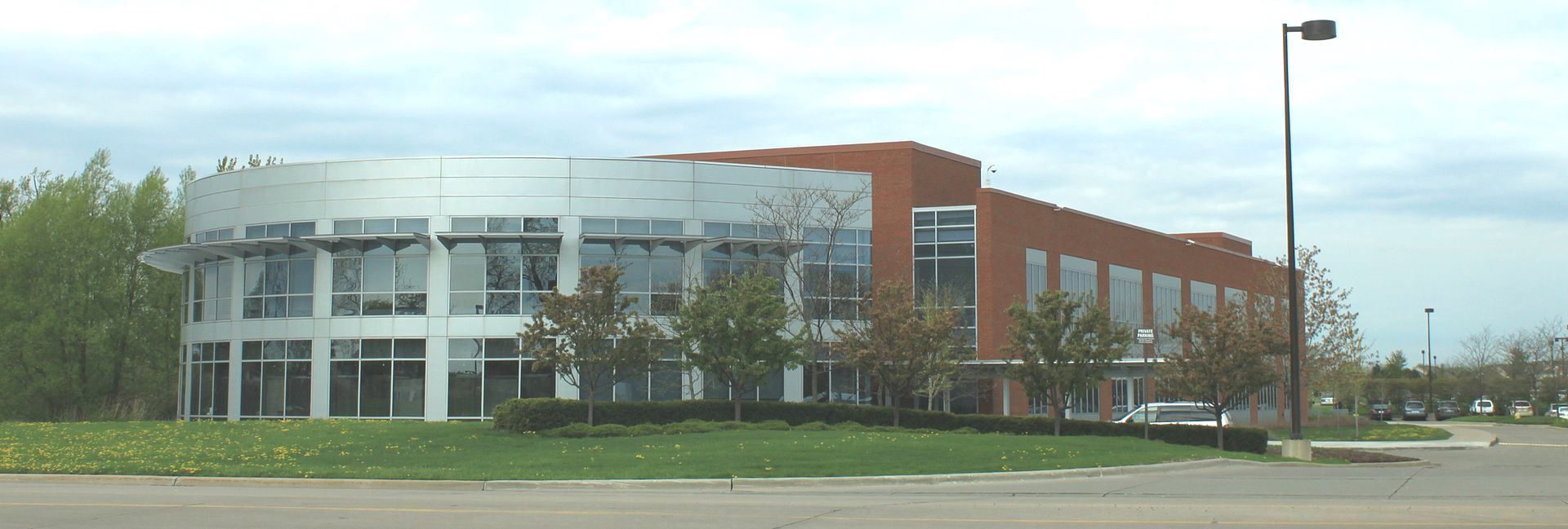 Carhartt Inc. headquarters building, 5750 Mercury Drive, Dearborn, Michigan